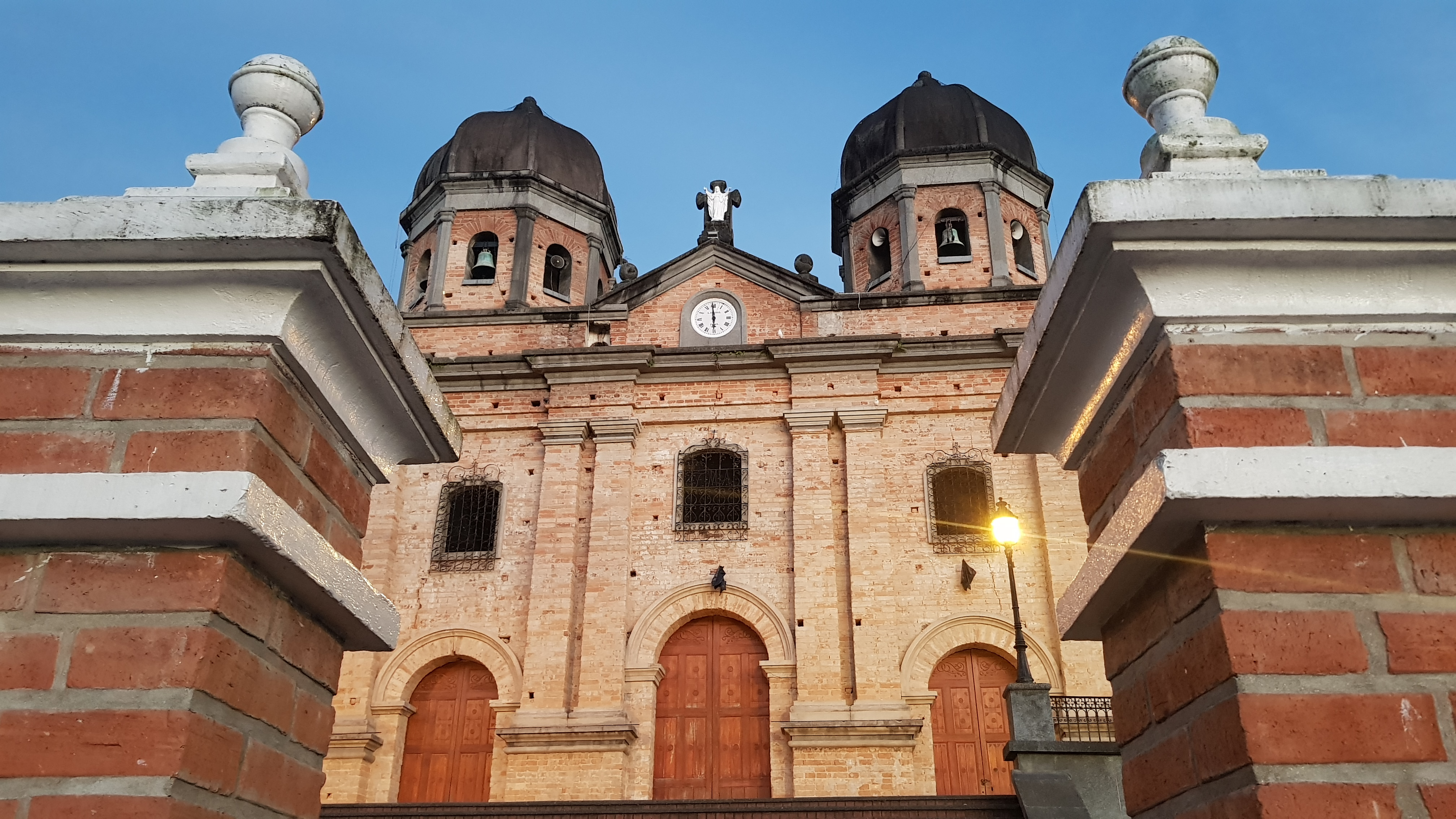 Concepción, Antioquia, Main Church